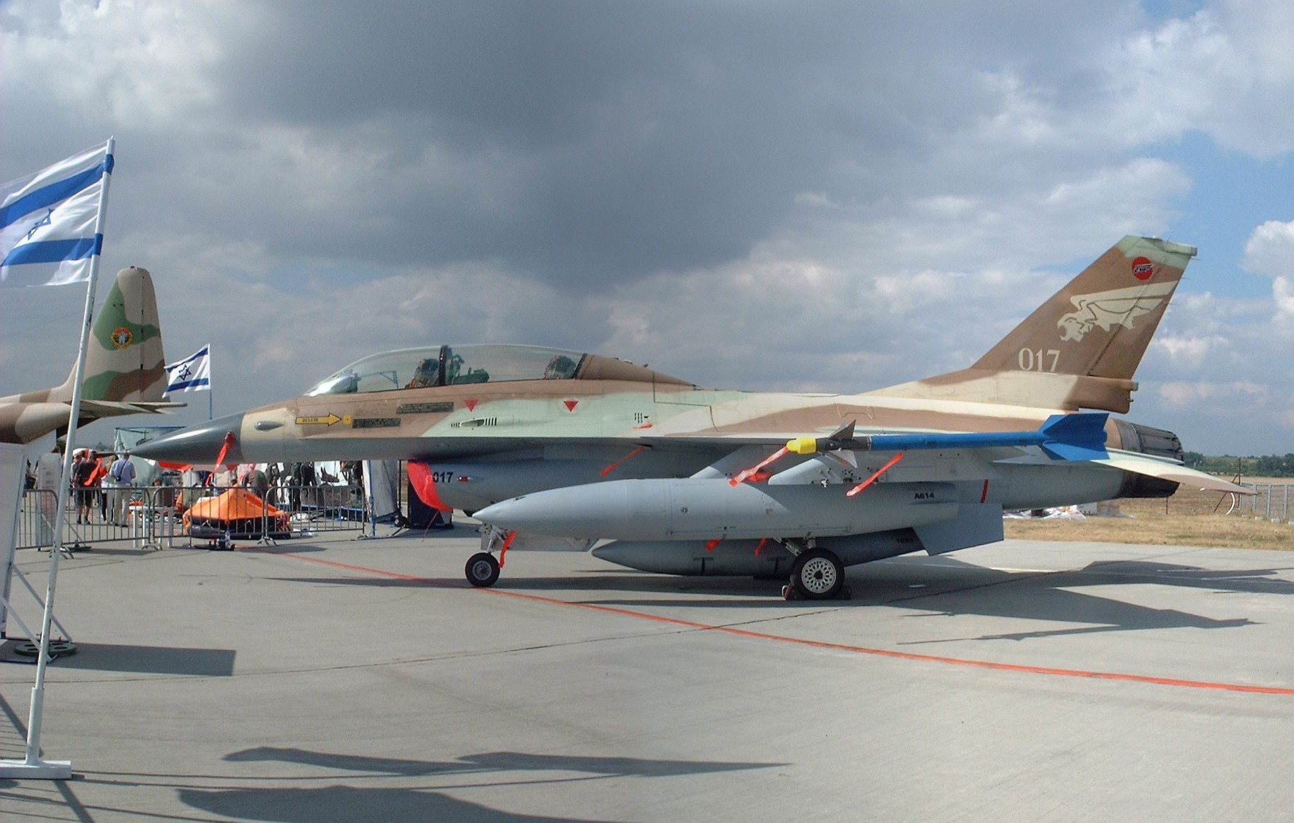 Israeli Air Force F-16B Netz '017' the 116 (Flying Wing) Squadron at CIAF 2004, Brno-Turany